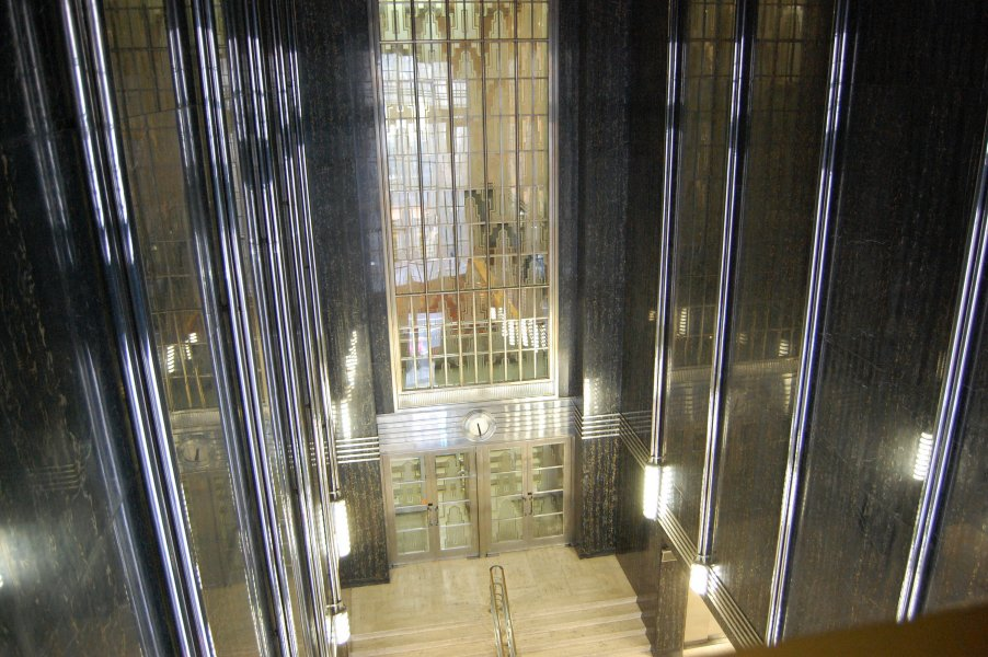 The entrance to the banking hall in the magnificent entrance to the Mutual Building. The ceiling of the entrance hall (not shown) is finished in gold leaf. Art deco themes are strongly represented in the stainless steel and the light fittings. Note the etched glass on the doors and internal windows that echoes the ziggurat style of the exterior of the building.